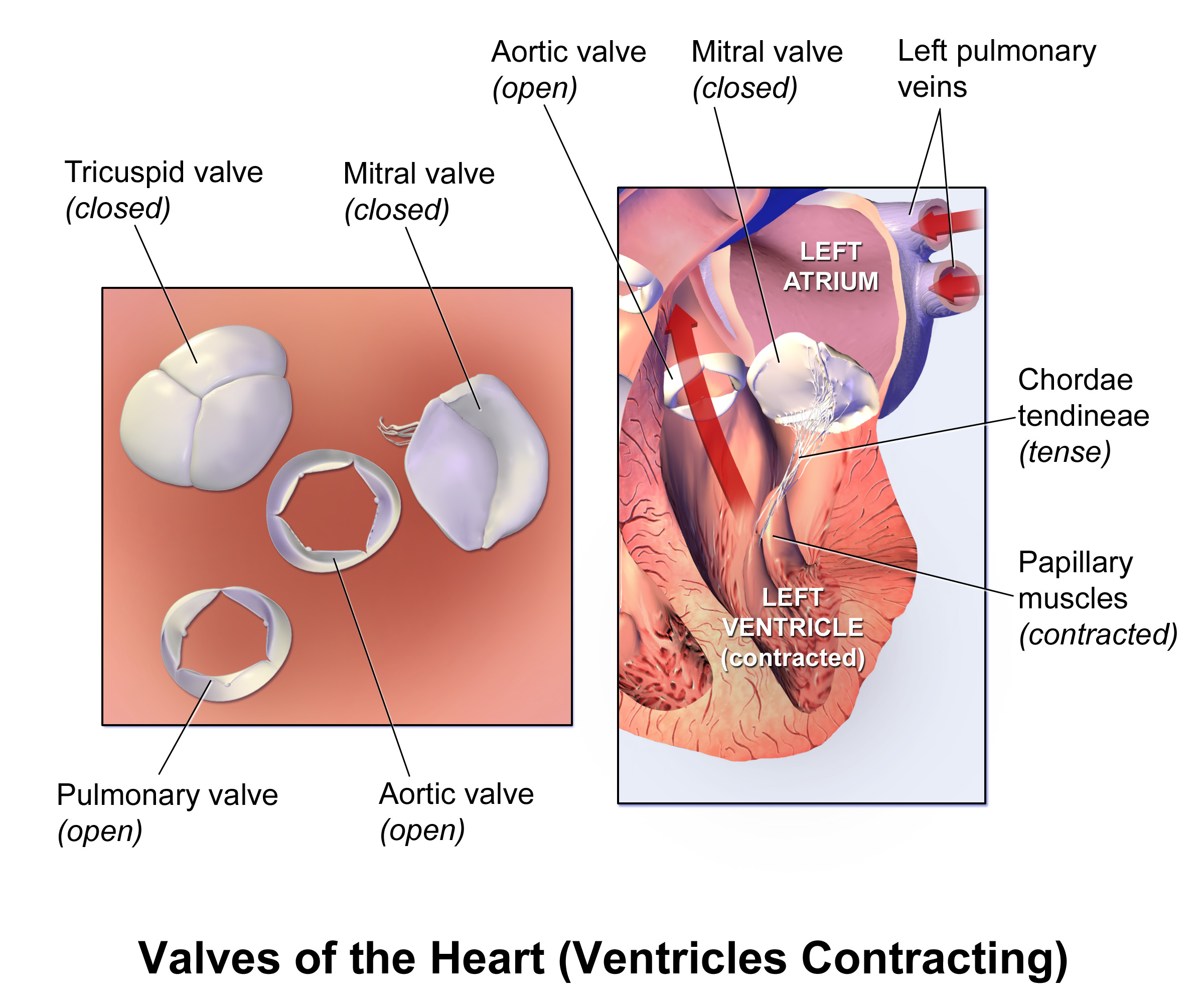 Valves of the Heart (Ventricles Contracting). See a related animation of this medical topic.